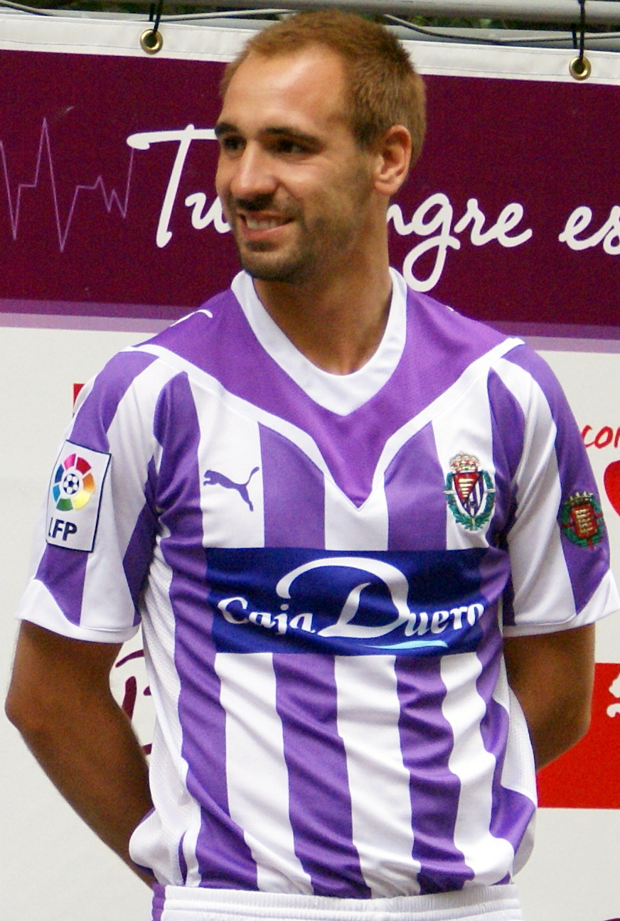 Borja Fernández during Puma show for new shirts of Real Valladolid in Valladolid.